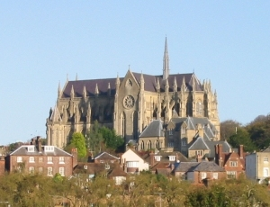 Arundel cathedral from the A27